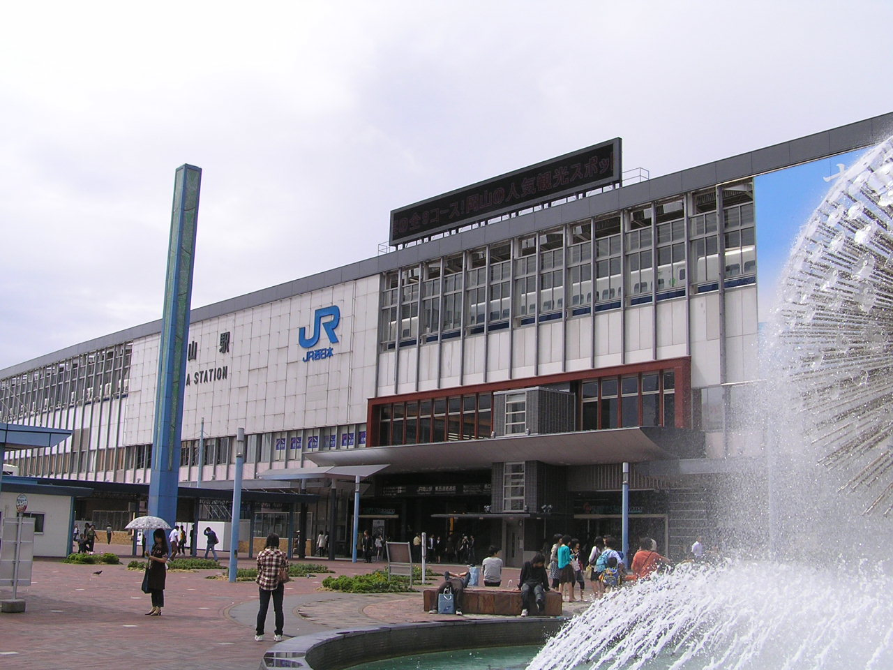 okayama station east entrance